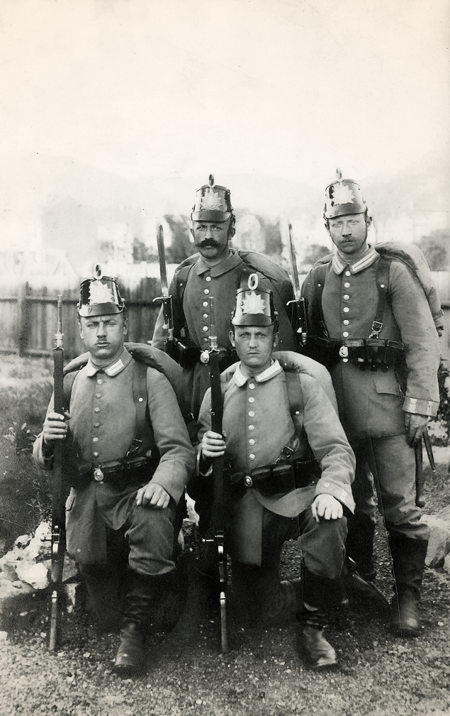 Jaeger Regiment 14